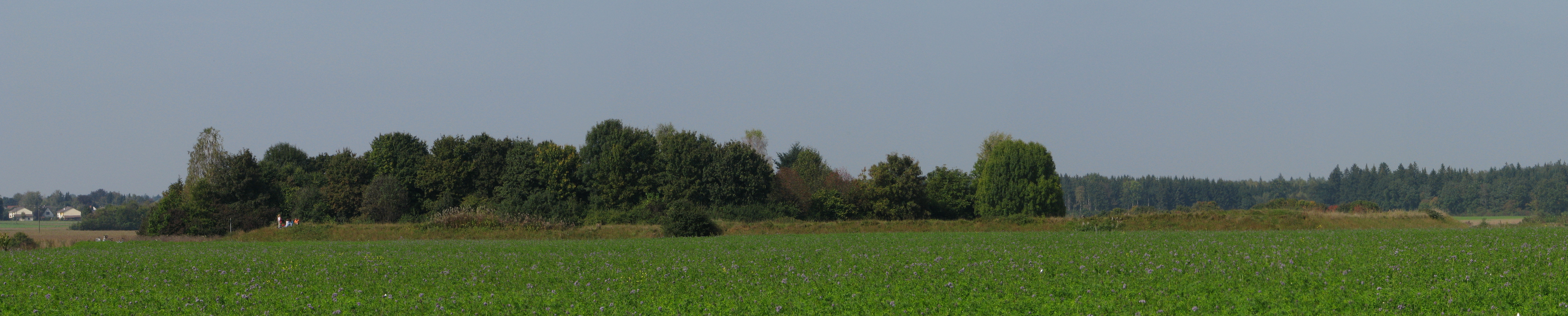 A Celtic nemeton (German: Viereckschanze or Keltenschanze) near to the small German village Buchendorf. One really has to know where to look to find it!